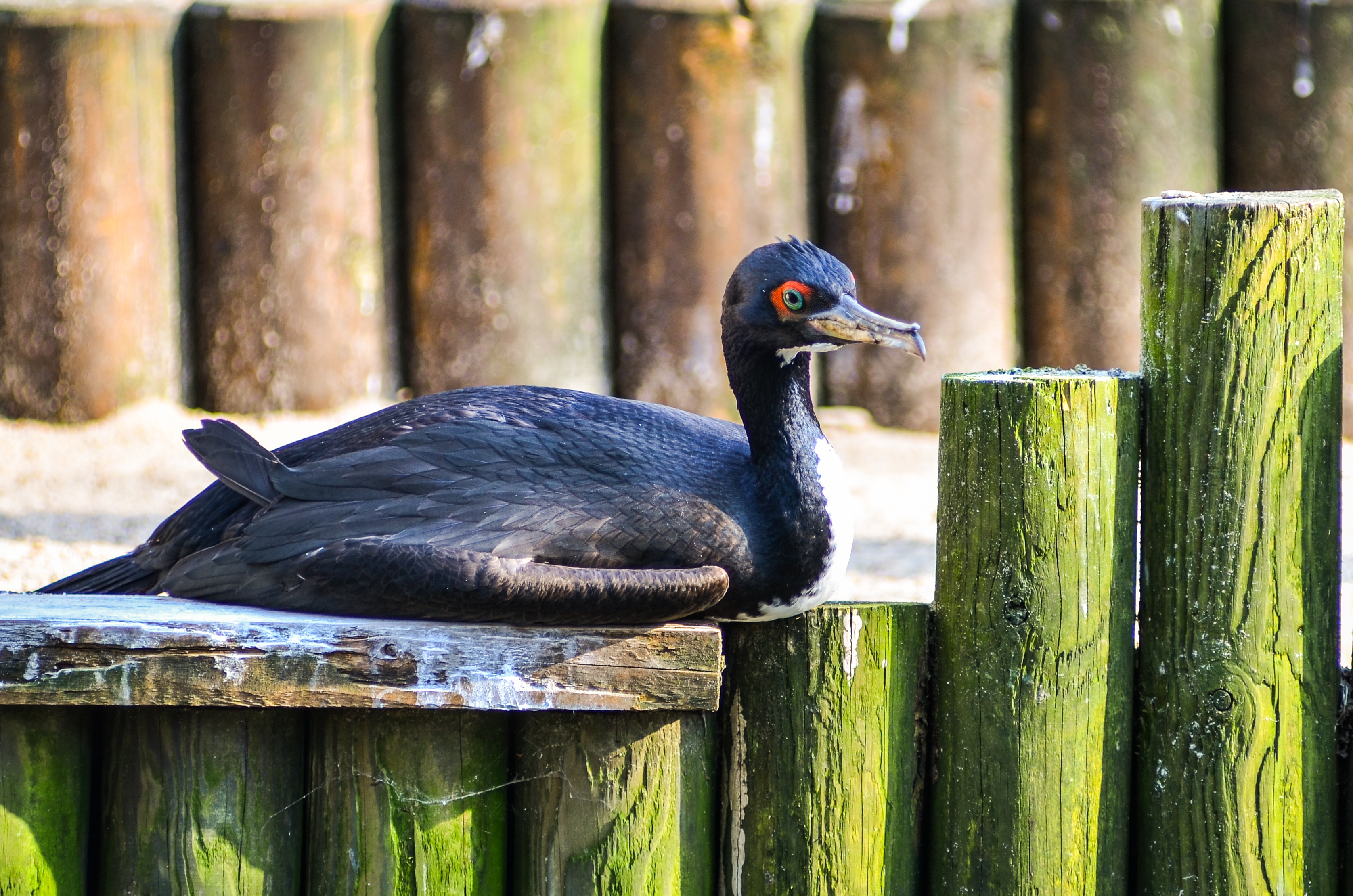 Guanay Cormorant (Phalacrocorax bougainvillii) at Weltvogelpark Walsrode (Walsrode Bird Park, Germany)